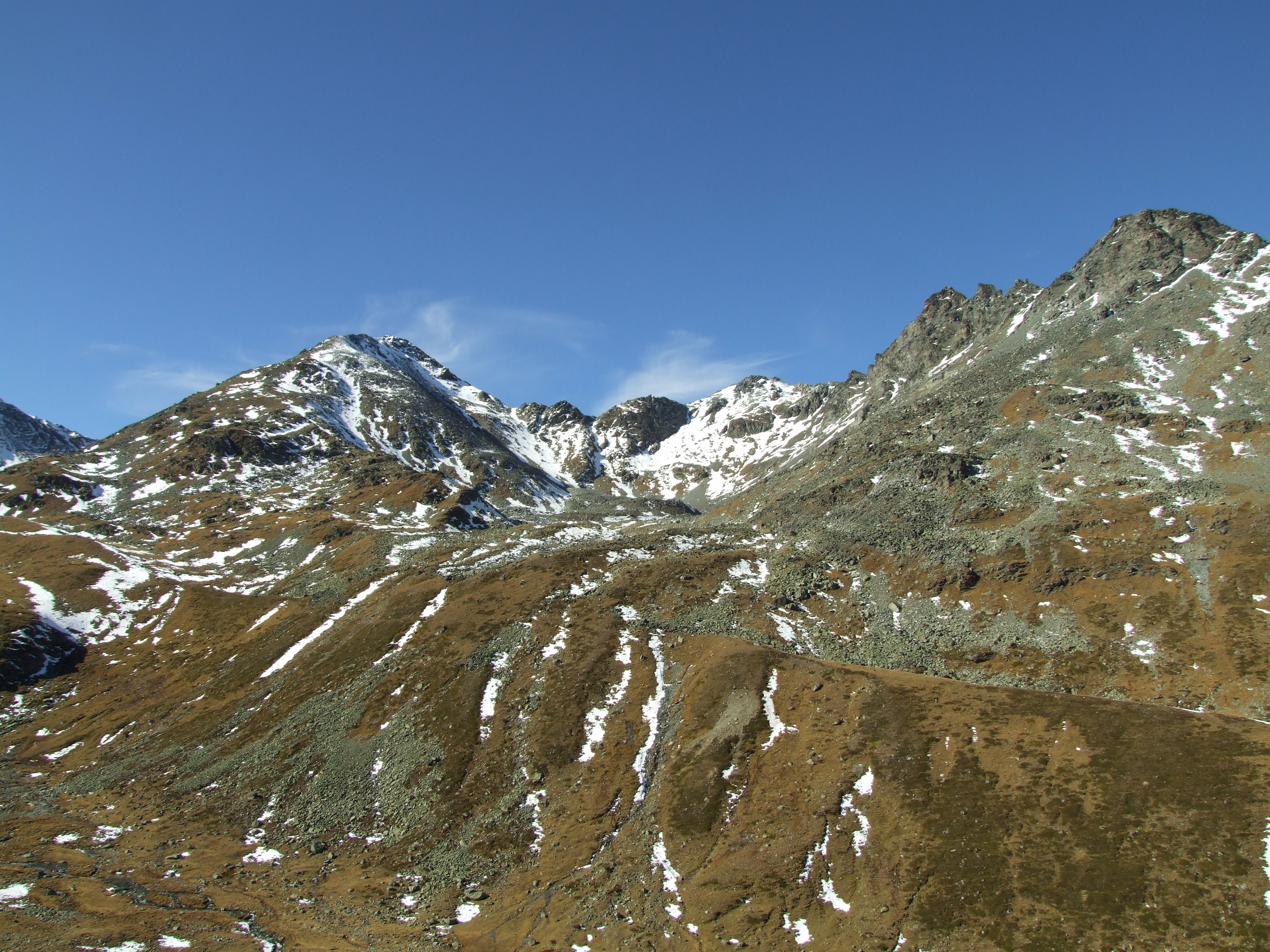 Jungtal with Wyssegga and Steitalhorn. Valais, Switzerland.